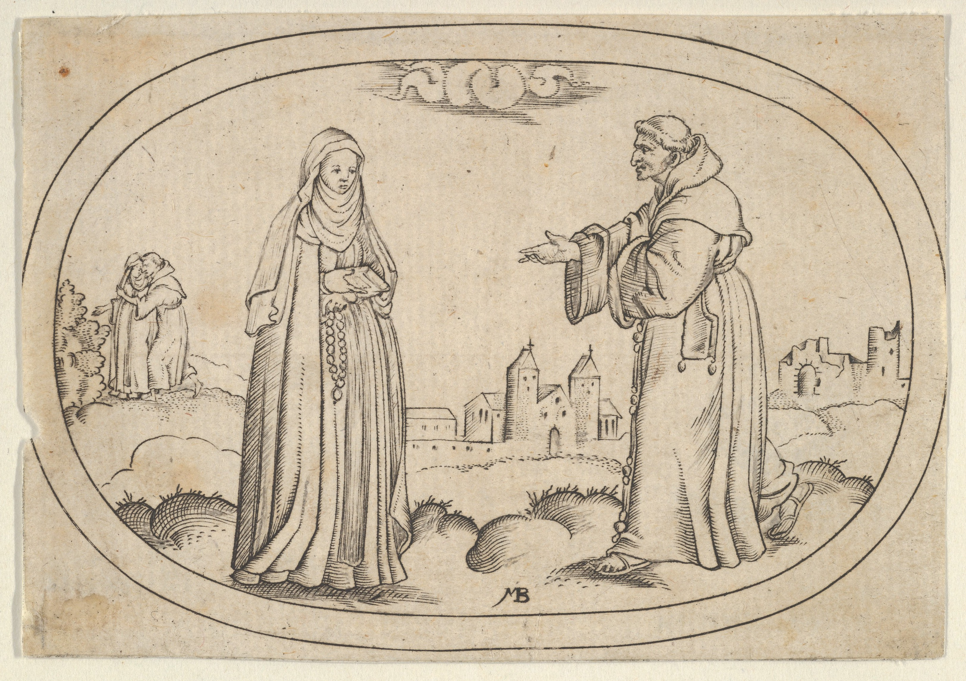 print ornament & architecture; Prints/Ornament & Architecture